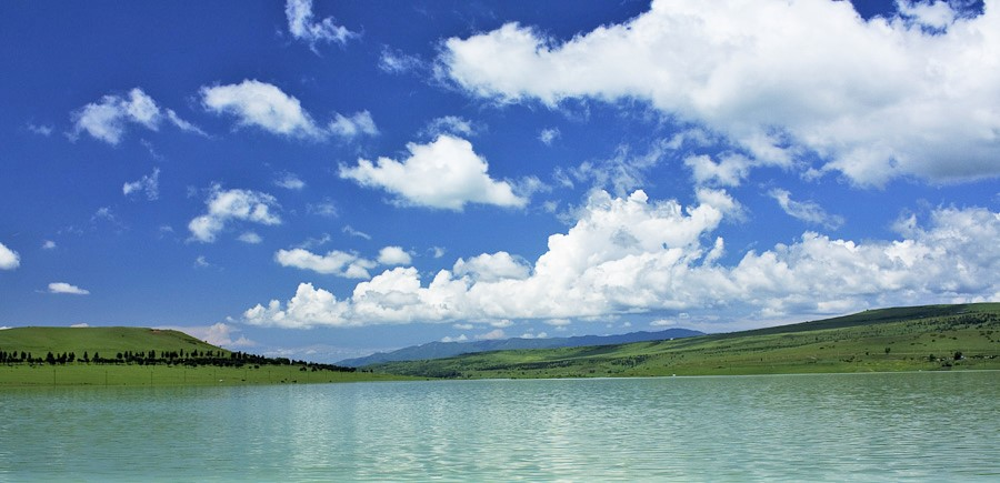 Tbilisi, Georgia — Tbilisi Reservoir